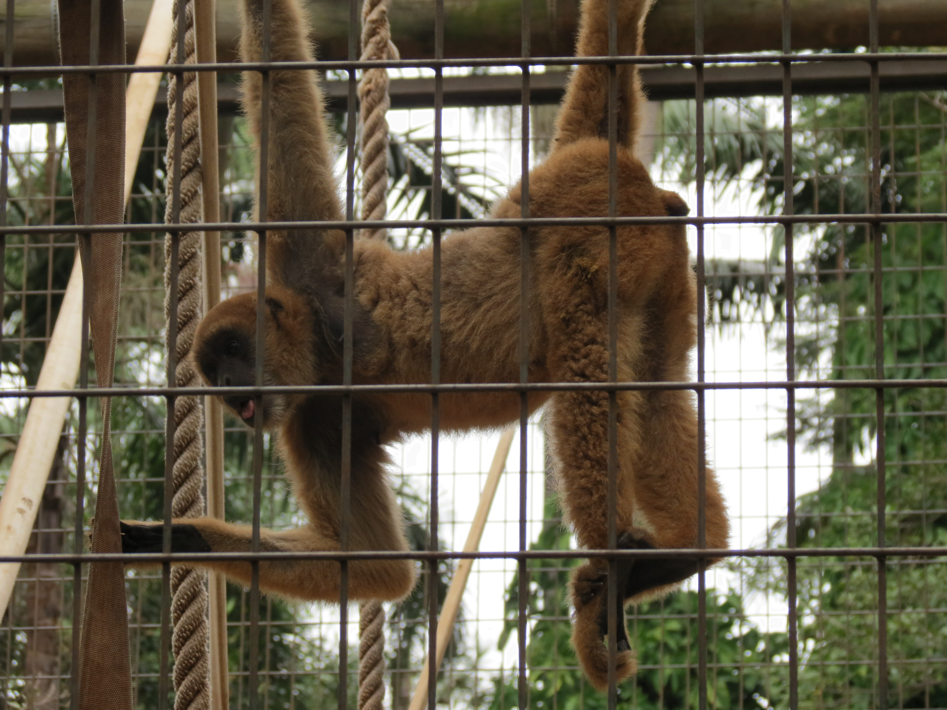 Southern muriqui female (Brachyteles arachnoides) in Sorocaba Zoo.